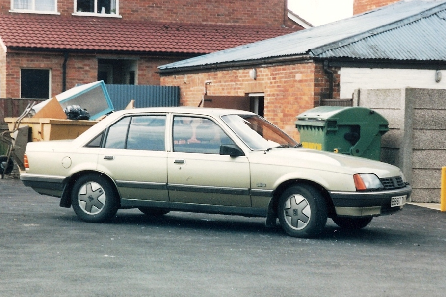 Image as before, but cropped